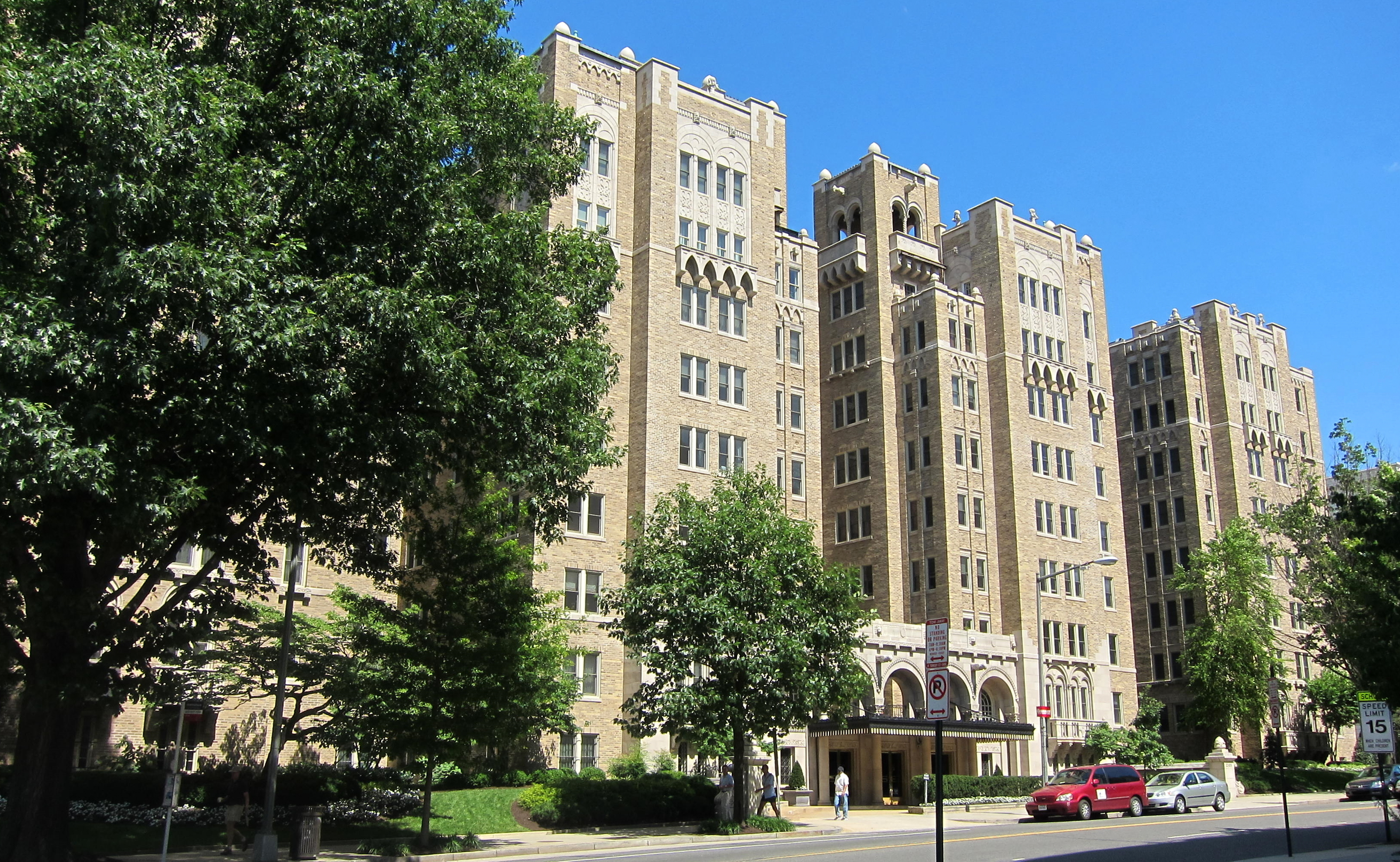 2101 Connecticut Avenue, N.W., a housing cooperative located in the Kalorama neighborhood of Washington, D.C. Built in 1928 by developer Harry M. Bralove and his partners, Edward C. Ernst and John J. McInerney, the Spanish Colonial Revival style former apartment building was designed by architects Joseph H. Abel and George T. Santmyer. 2101 Connecticut Avenue is designated as a contributing property to the Kalorama Triangle Historic District, listed on the National Register of Historic Places in 1987. Former occupants include Alben W. Barkley, William E. Borah, Theodore E. Burton, Benjamin N. Cardozo, Tom C. Clark, Willis Van Devanter, Leslie Groves, John Kluge, and Arthur L. Willard.